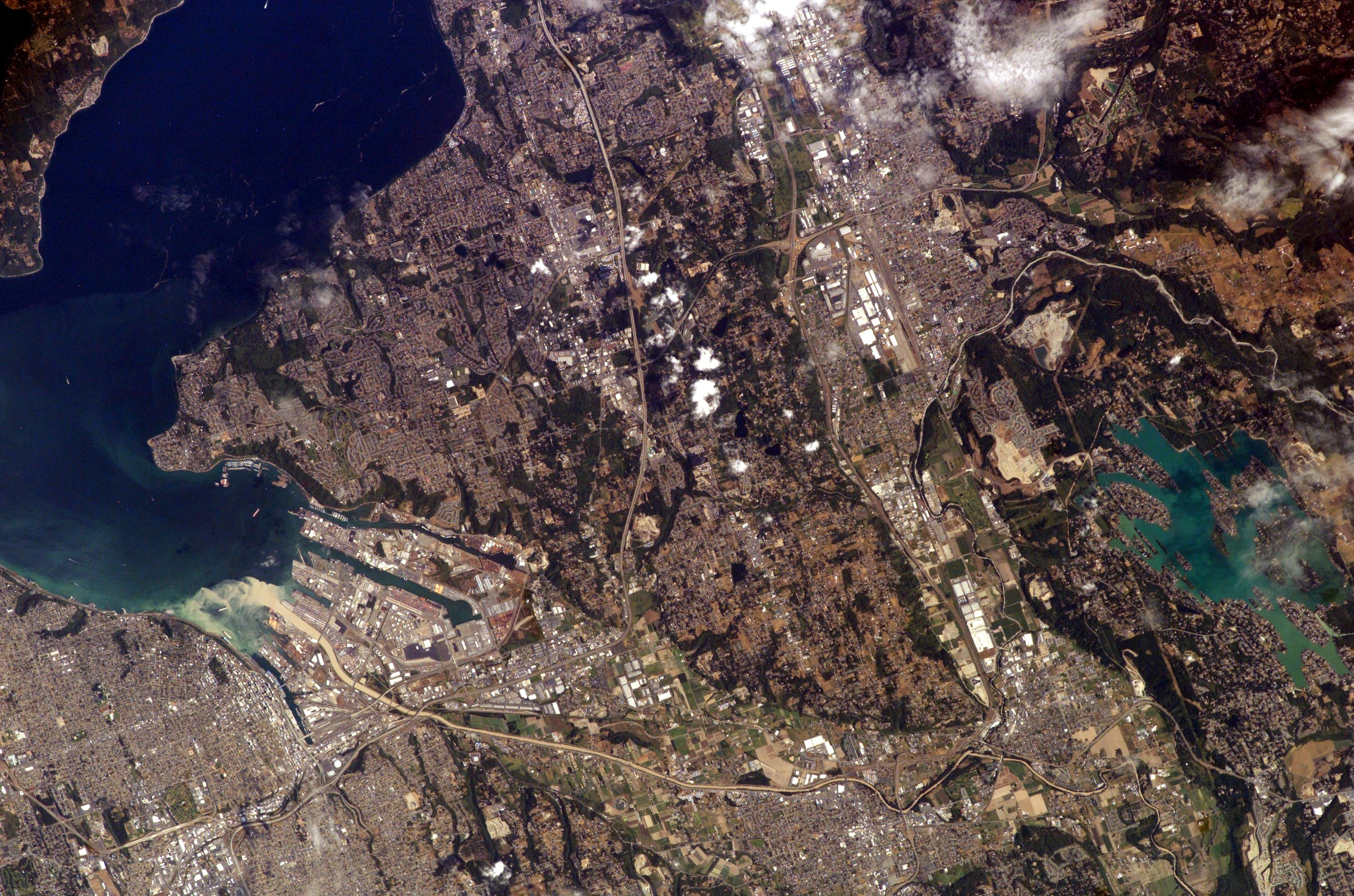 Satellitepicture of Tacoma, Washington (State), USA. Nice view of the Port of Tacoma